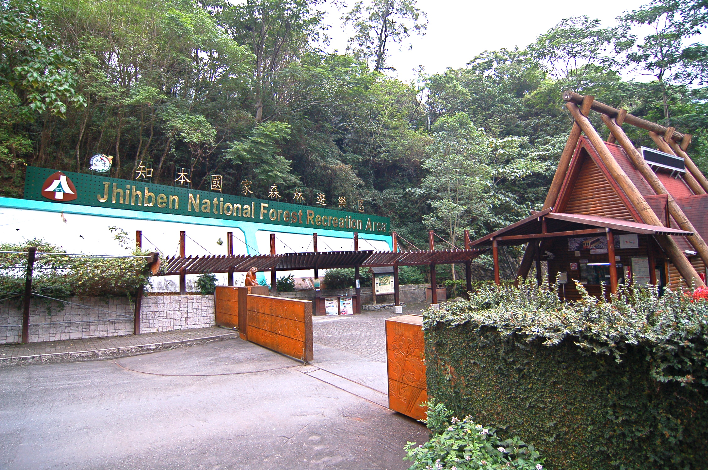 Entrance to the Jhihben National Forest Recreation Area.